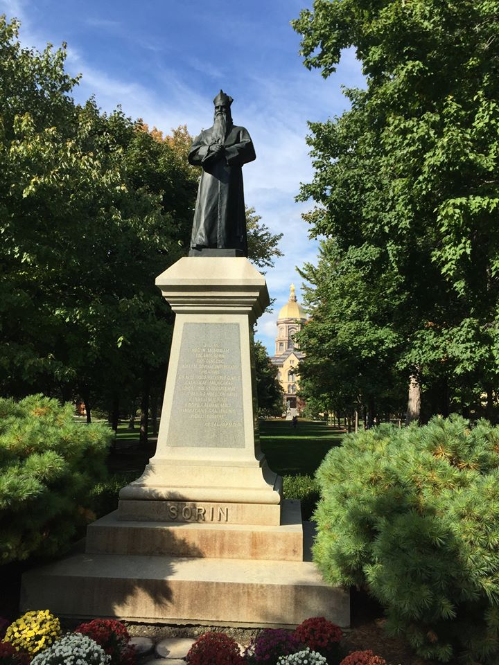 Bronze statue of Father Edward Sorin, at the University of Notre Dame. Sculpted by Ernesto Biondi (January 30, 1855 – 1917), unveiled on May 3, 1906.